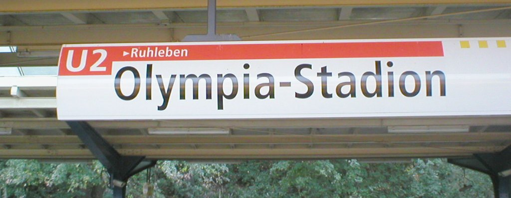 Sign of Berlin's U-Bahn station Olympia-Stadion